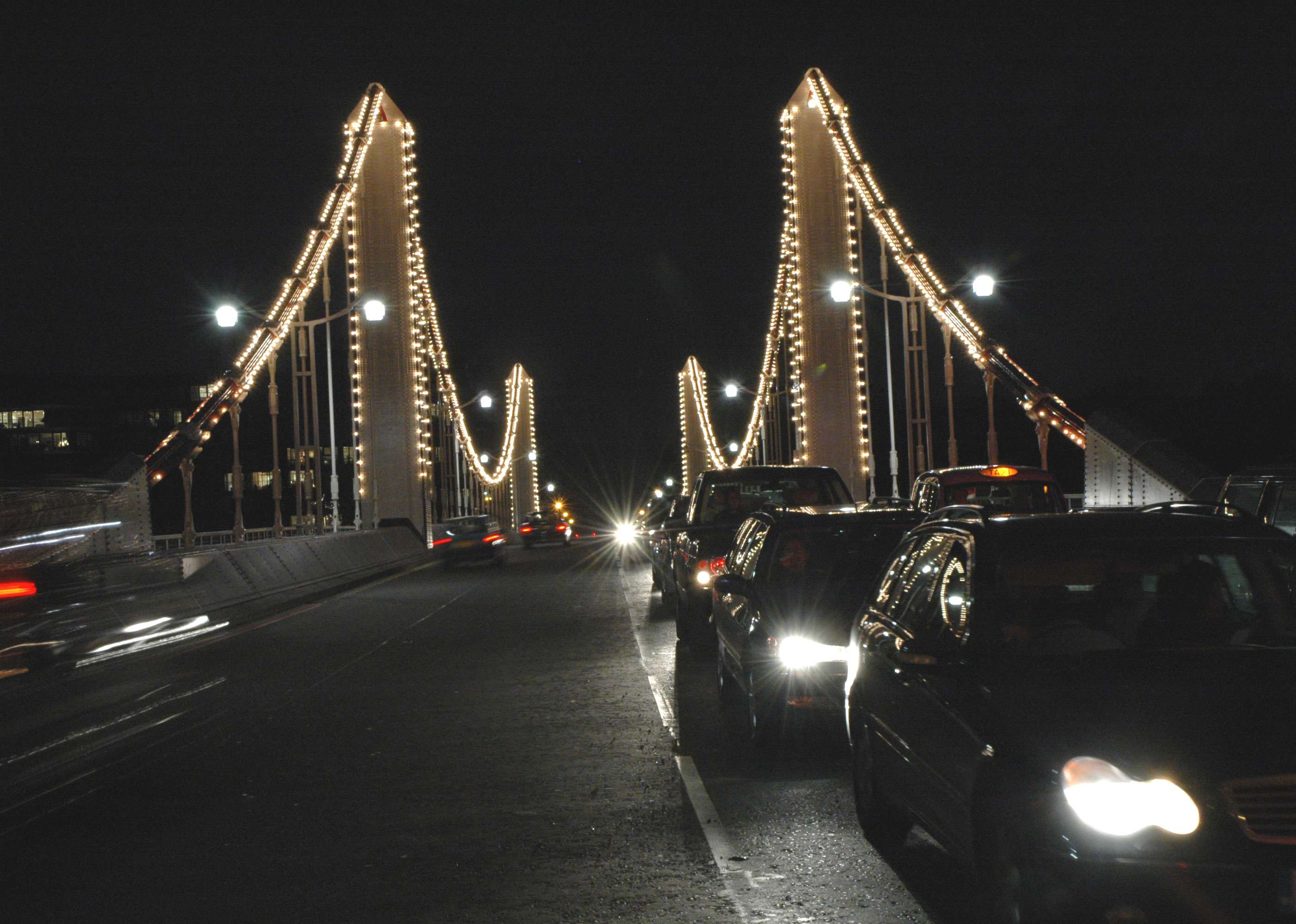 Chelsea bridge in London at night time